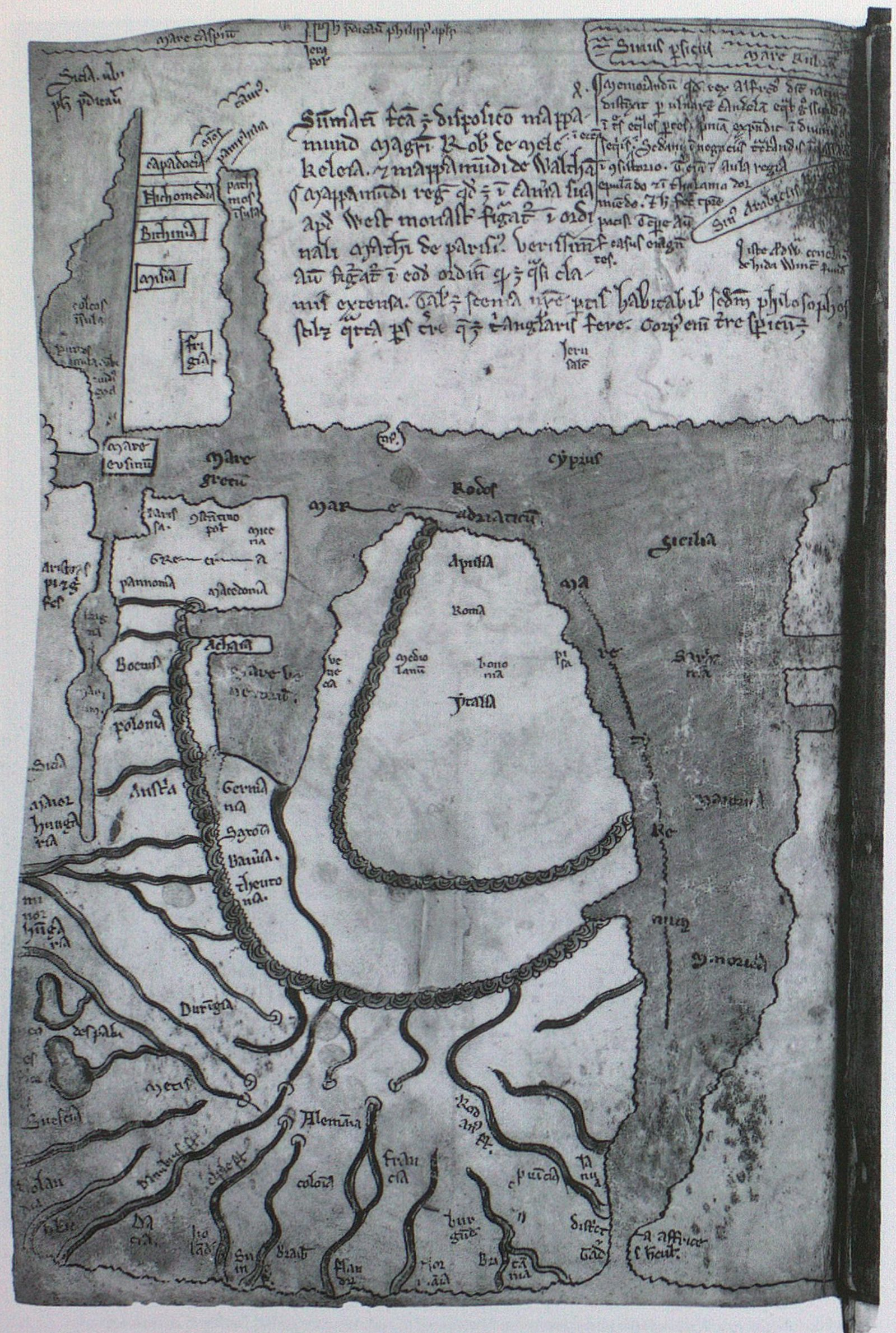 A map of the world in the „Chronica maiora“: Cambridge, Corpus Christi College, Parker Library, Ms. 26, page 284.